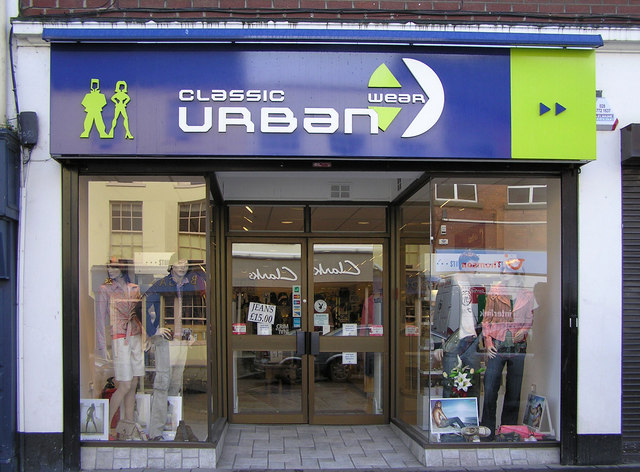 Classic Urban, Omagh. This clothes shop is located at Market Street.